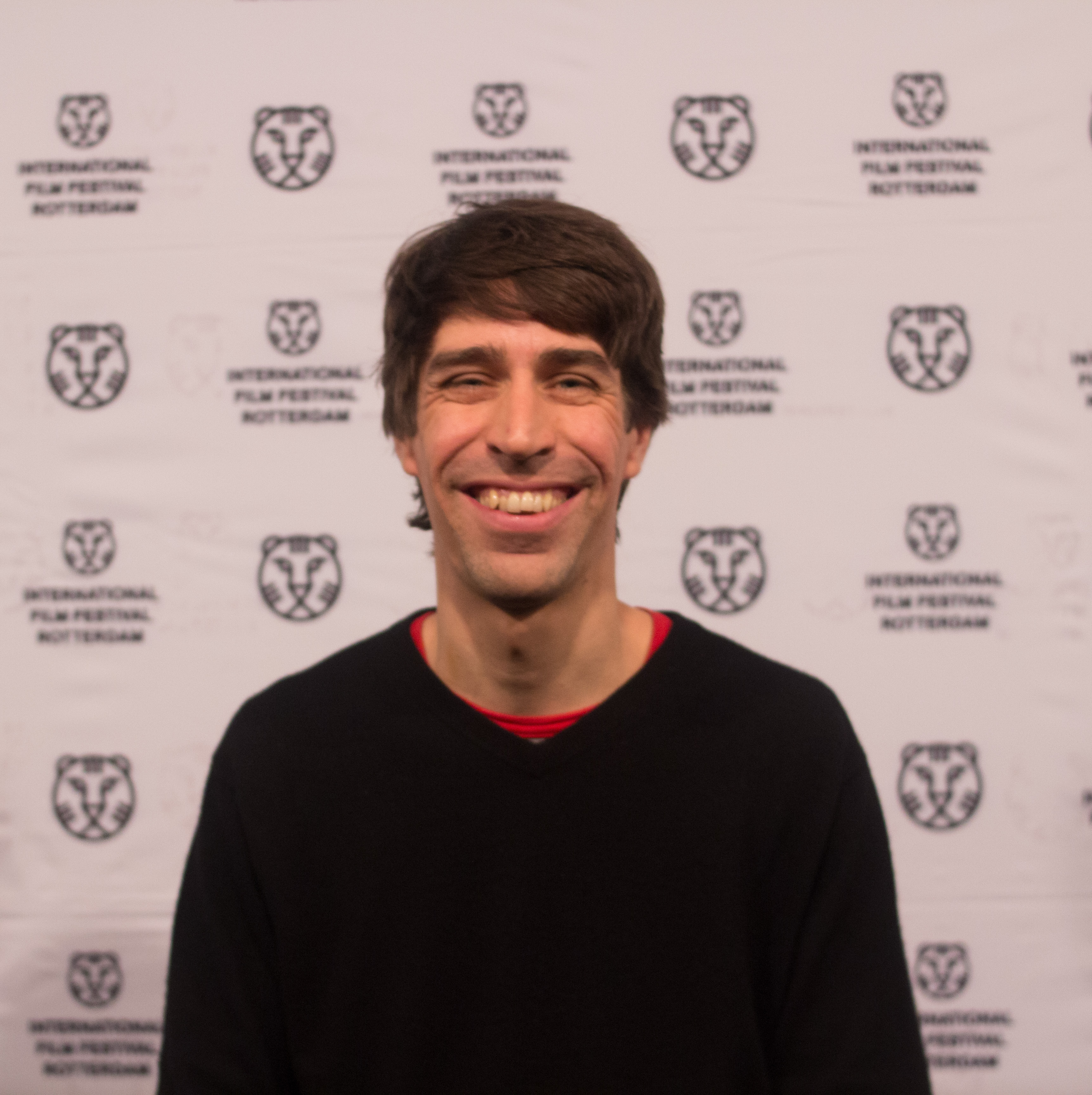 Jakob Preuss promoting his movie "Als Paul über das Meer kam" at the IFFR 2017